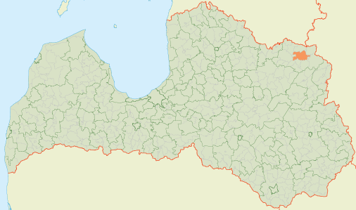 Location of Jaunalūksne Parish in Latvia